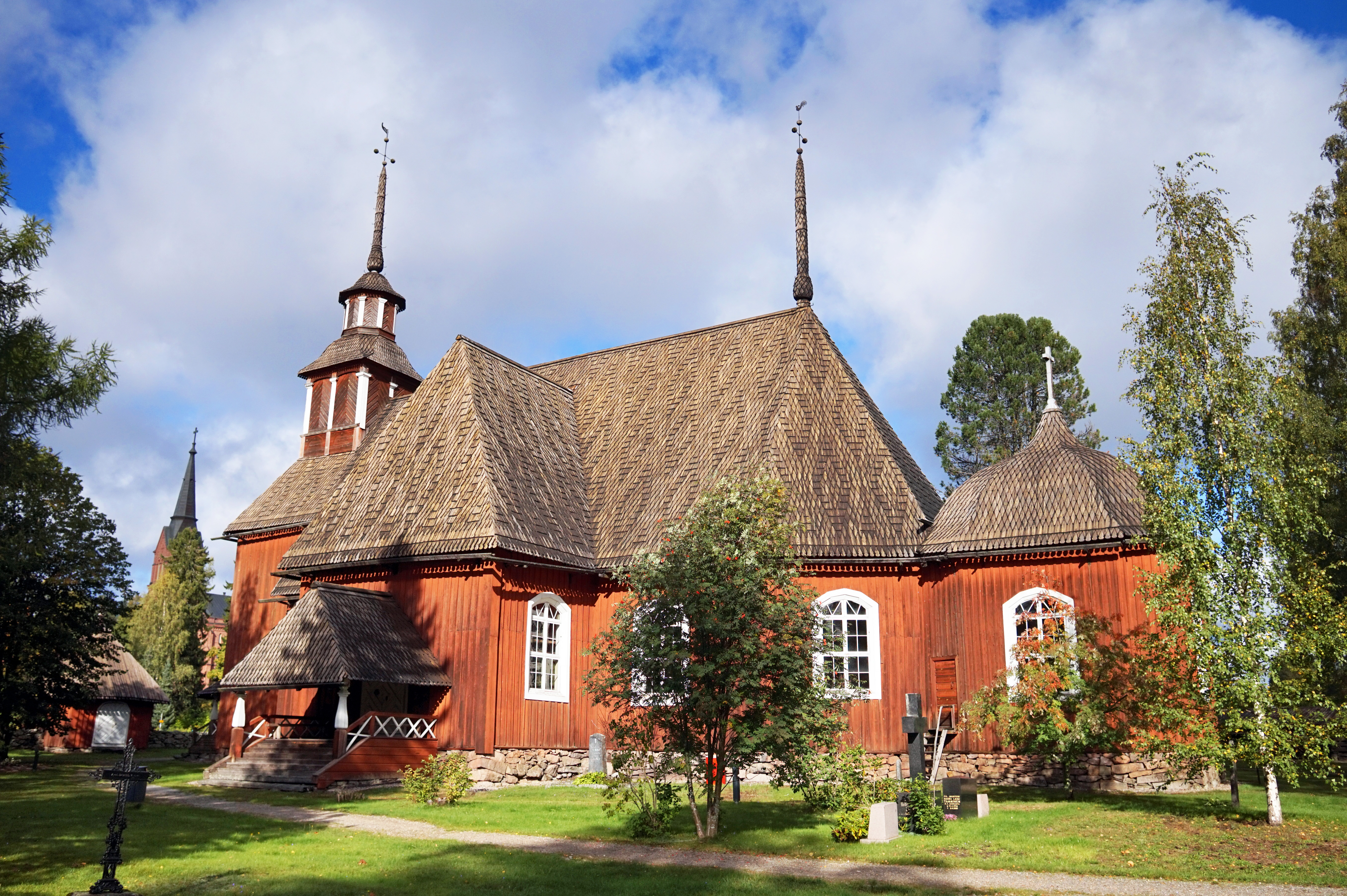 Keuruu Old Church This is a photo of a monument in Finland identified by the ID 'Keuruu Old Church' (Q11871227)